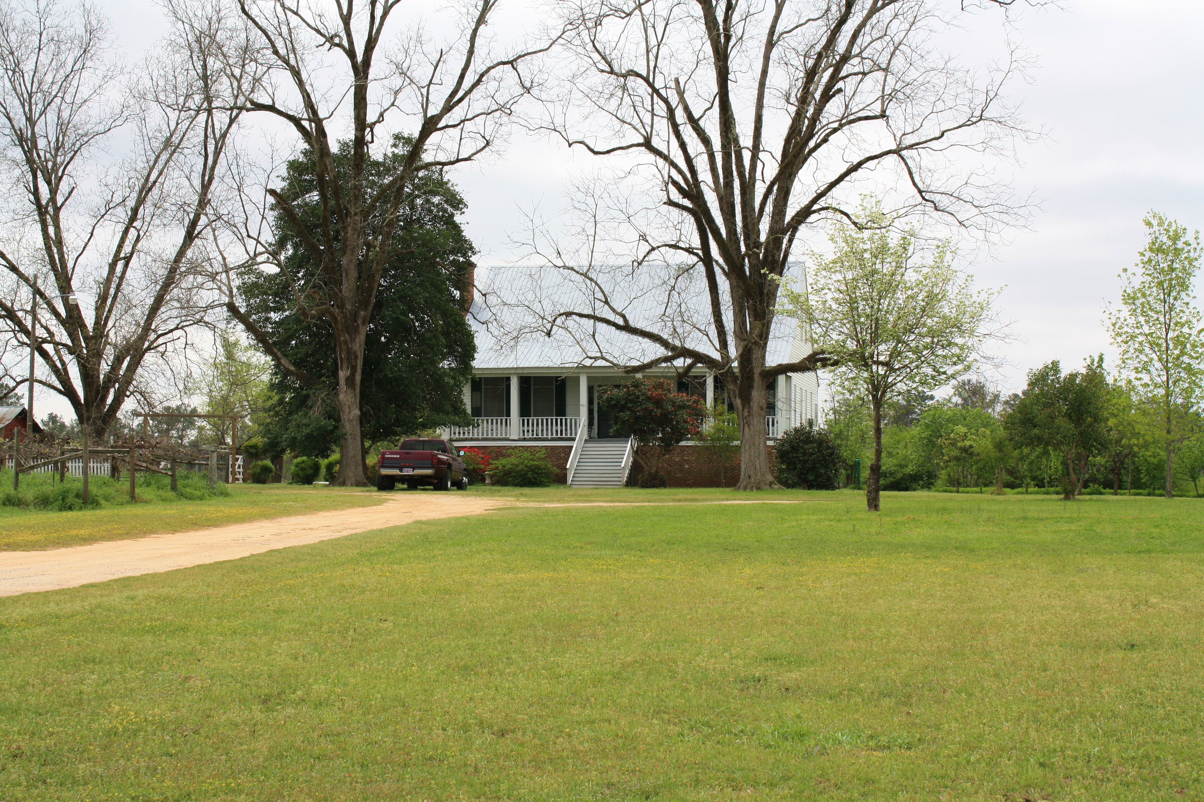 From The Heritage of Marengo County, Alabama: The Mathers House in Nanafalia, Marengo County, Alabama. Purchased in 1885 by Ebenezer Mathers. The book states that it was built in the early 1800s by a Captain Matthews, from whom Ebenezer bought it. However, the property the house sits on was purchased from the the Federal Land Office at Demopolis on July 1, 1848 by Caleb B. Williams. He was born in 1806 in South Carolina and died in Nanafalia, Marengo County, Alabama in 1856. Judging by the style of the house (Carolina raised cottage) and his place of origin, the house was most likely built by Williams. At the time of the 1850 census of Marengo County he owned 66 slaves and real estate valued at $10,000. The first census record of a Matthews/Mathews living in Nanafalia dates to 1880, with Robert W. Mathews, born about 1833 in Alabama. His occupation is listed as "1st Clerk On Steam Boat." In 1850 he was living with his father, Timothy W. Mathews in Wilcox County. In 1860, the entire family was enumerated in Mobile, with Timothy W. listed as a minister, Robert listed as a clerk, and his brother Timothy listed as a steam boat captain.